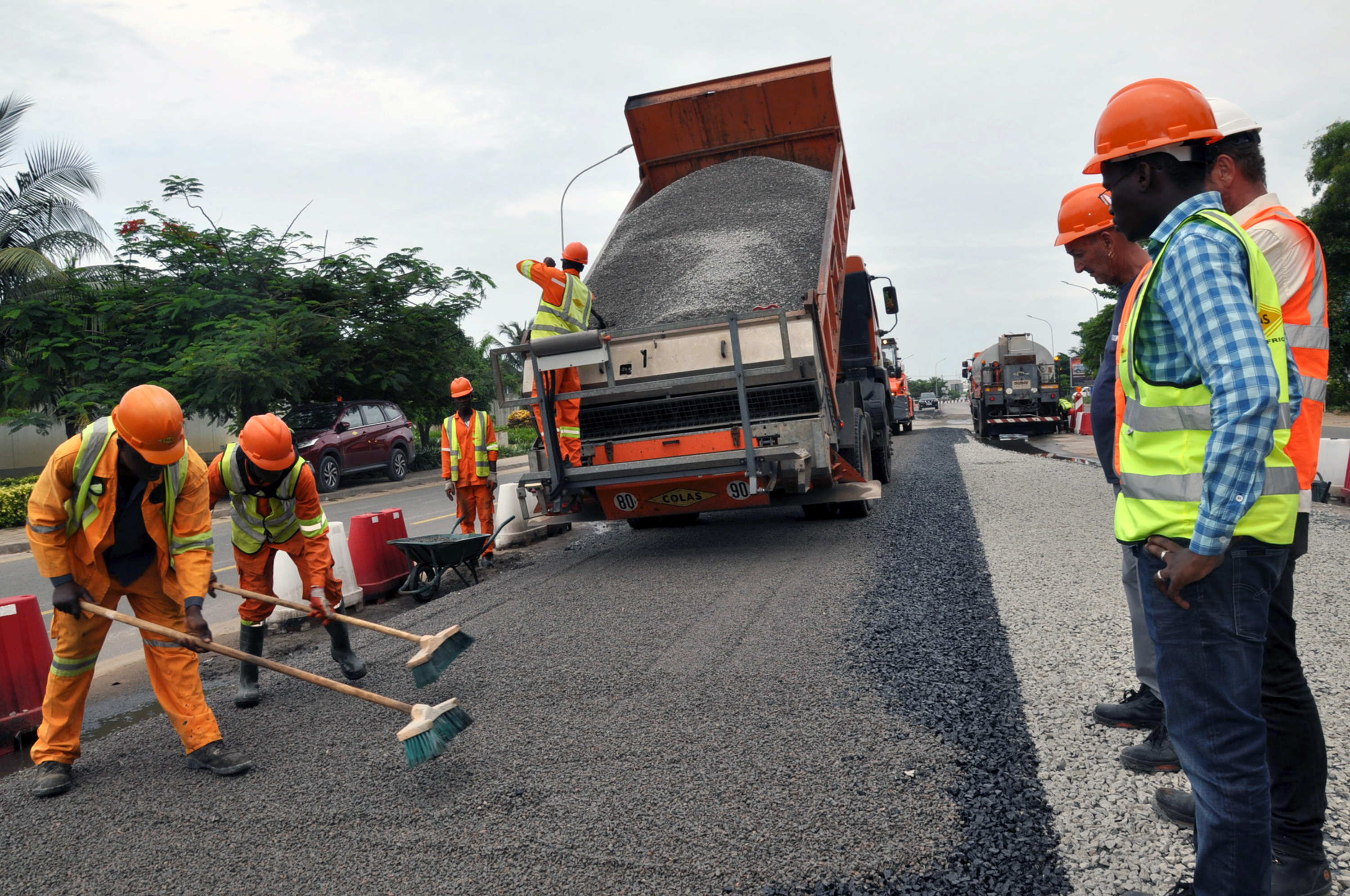 the rigor in the execution of the works gives a new face to Benin This is an image with the theme "Africa on the Move or Transport" from: Benin